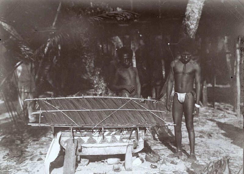 Subject: death and mourning, graves (funerair), main garments for the lower body, skull (human)